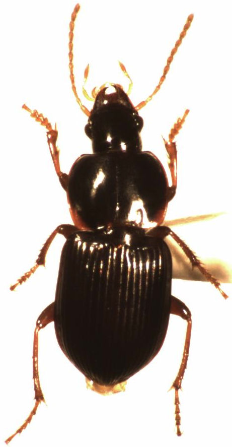 adult male Kupeharpalus embersoni